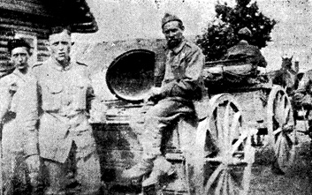 Field kitchen of the DBAC